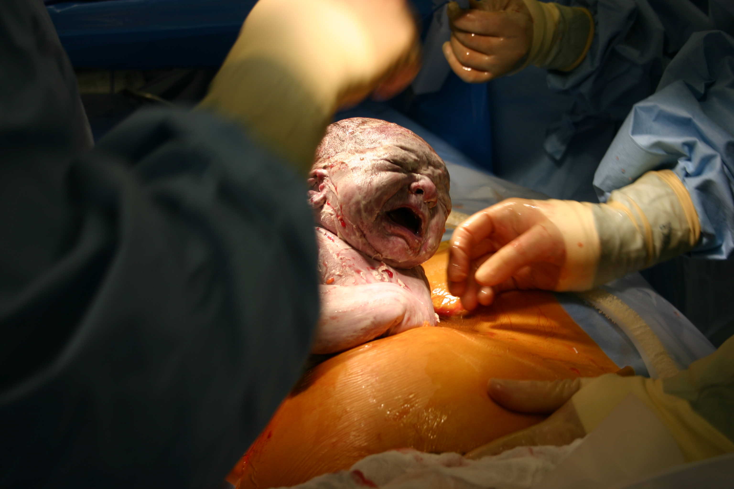 First breath of a child being born by cesarean section.